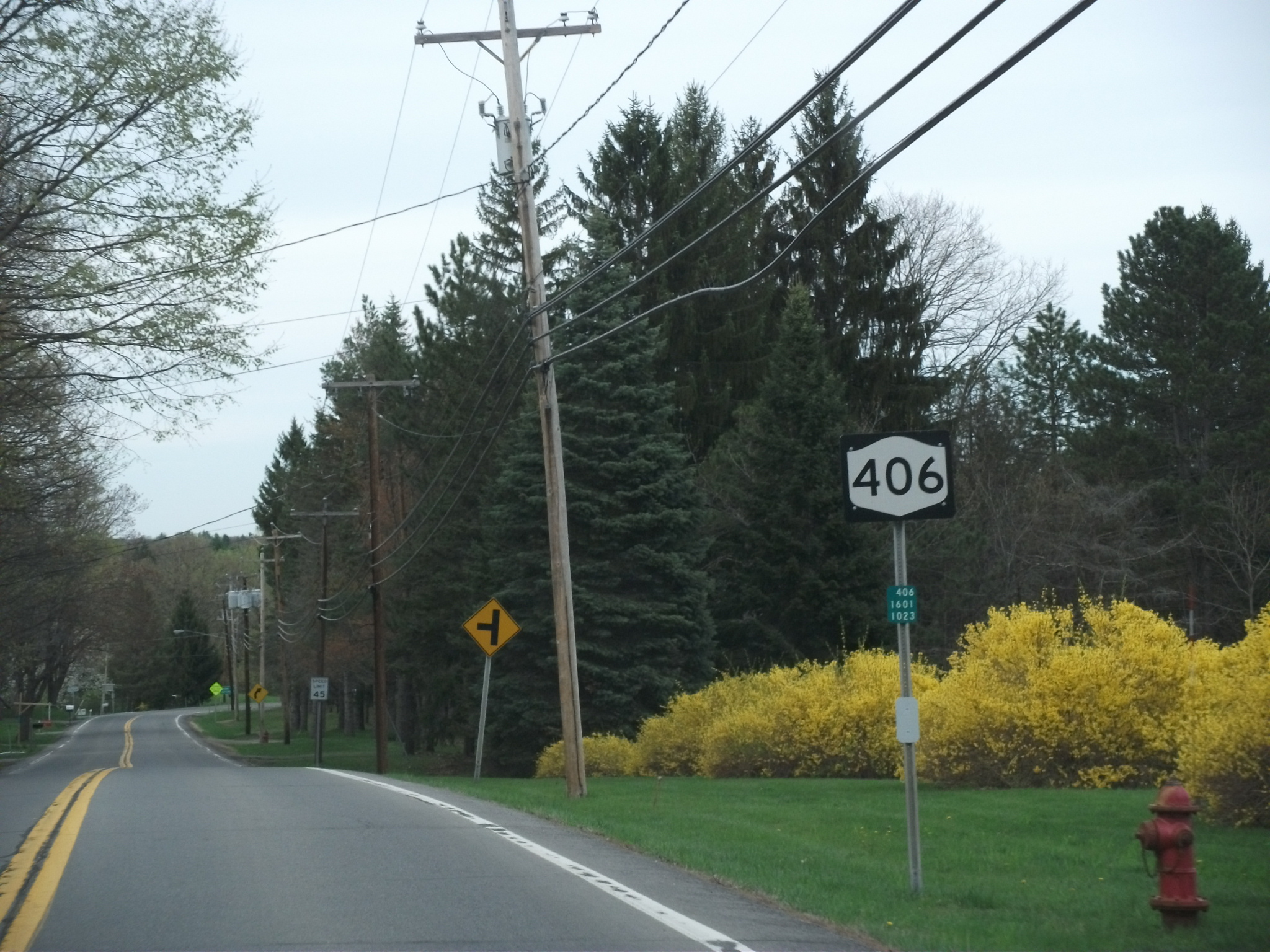 New York State Route 406 heading through Rotterdam, midway between Pine Grove and Princetown.